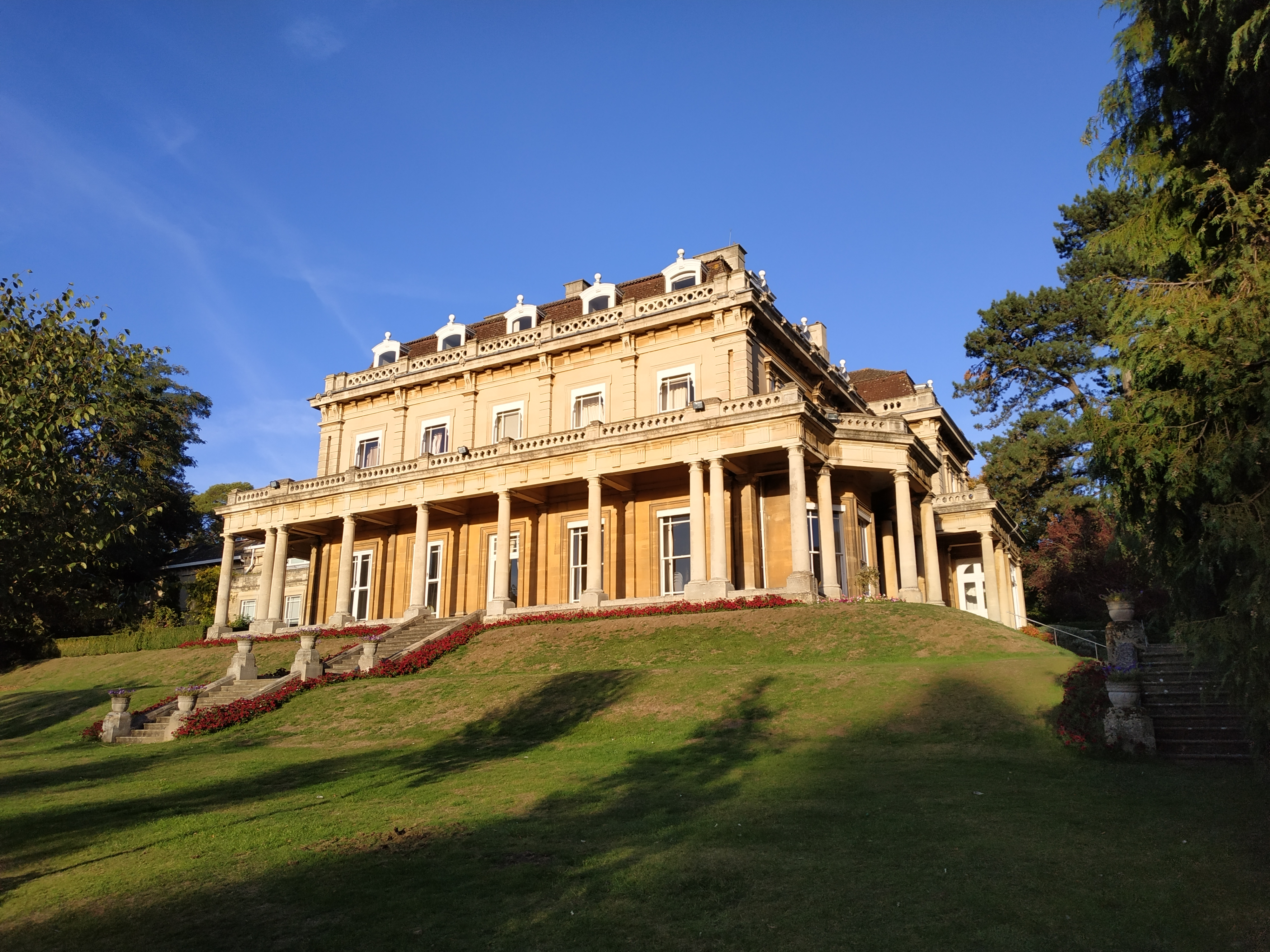 Headington Hill Hall Wikidata has entry Q5689630 with data related to this item.